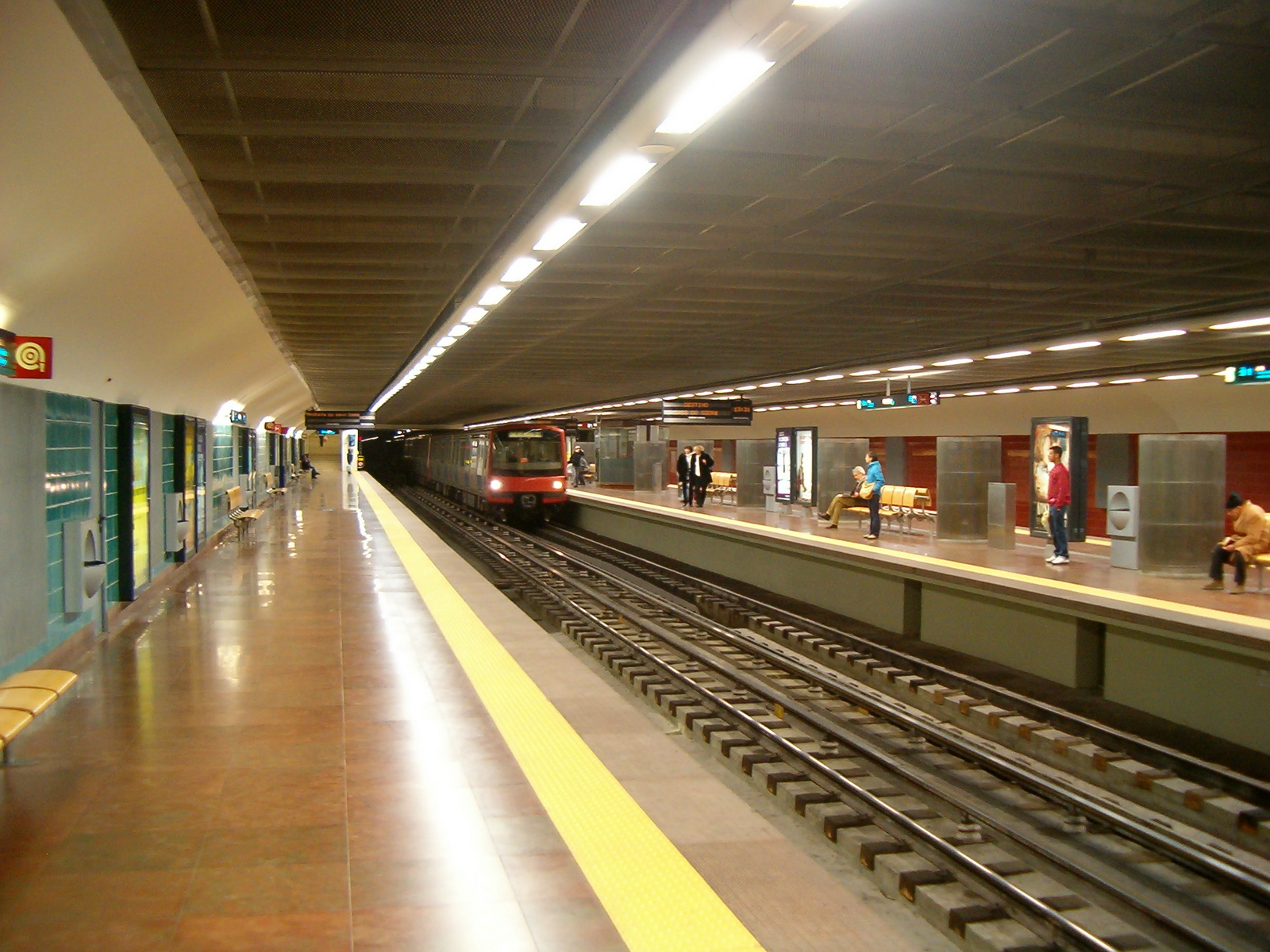 Metro station Alvalade (Lisboa)